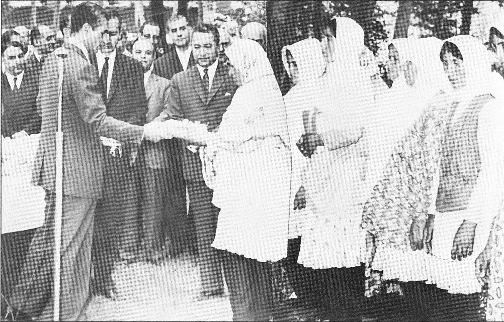 Shah Mohammad Reza Pahlavi handing out documents of ownership of land to women, white revolution, land reform, 1963